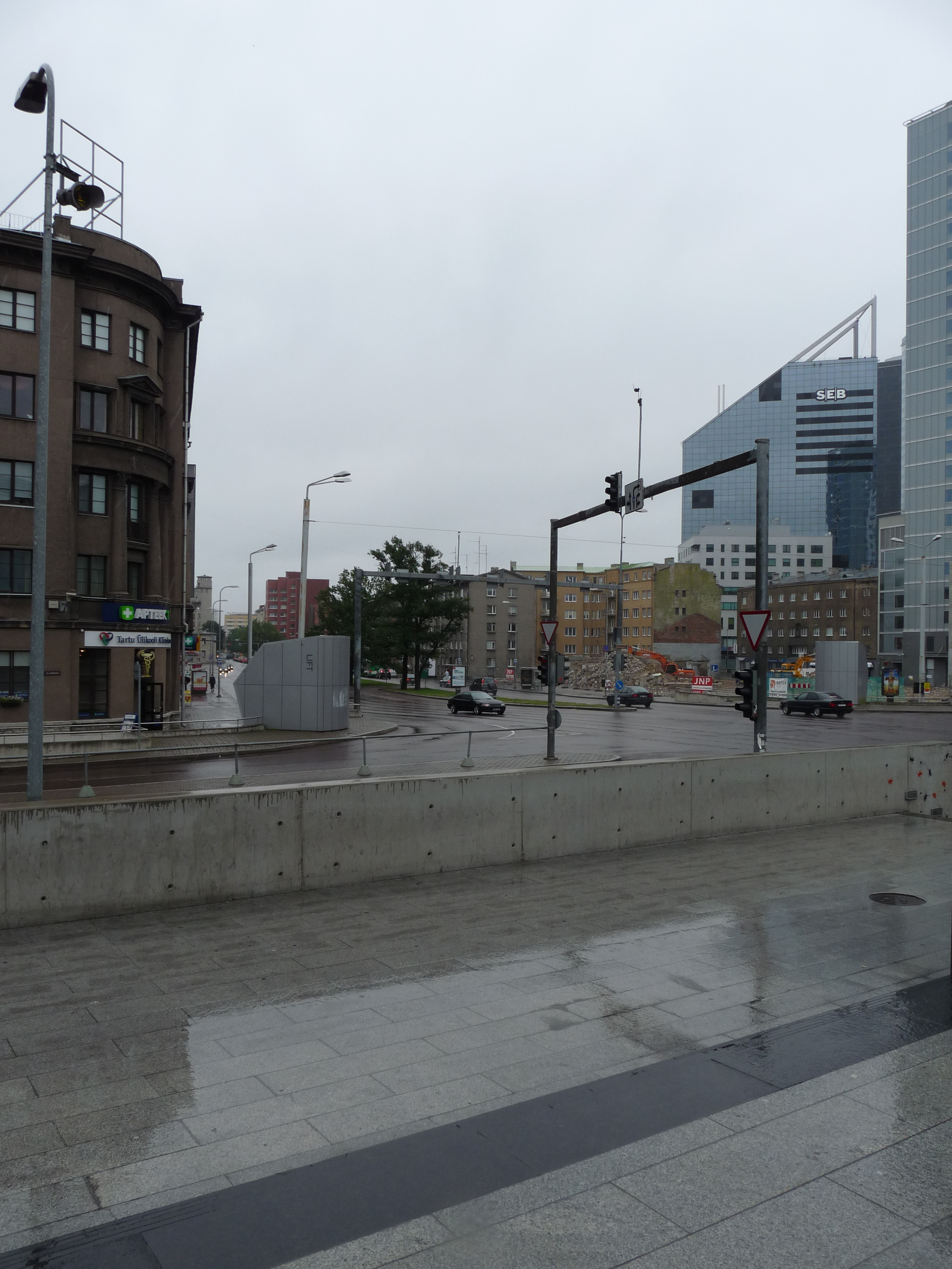 View to Gonsiori street from Viru centre